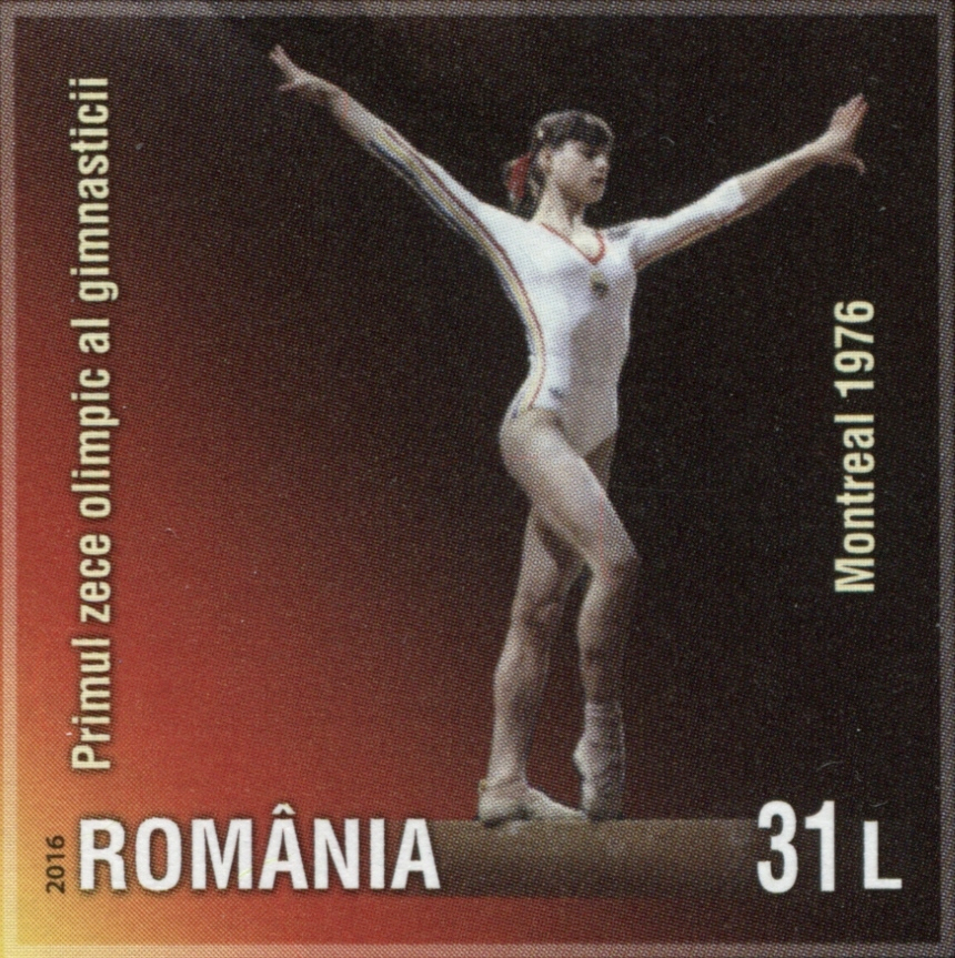 The First Olympic 10 of Gymnastics, Nadia Comăneci